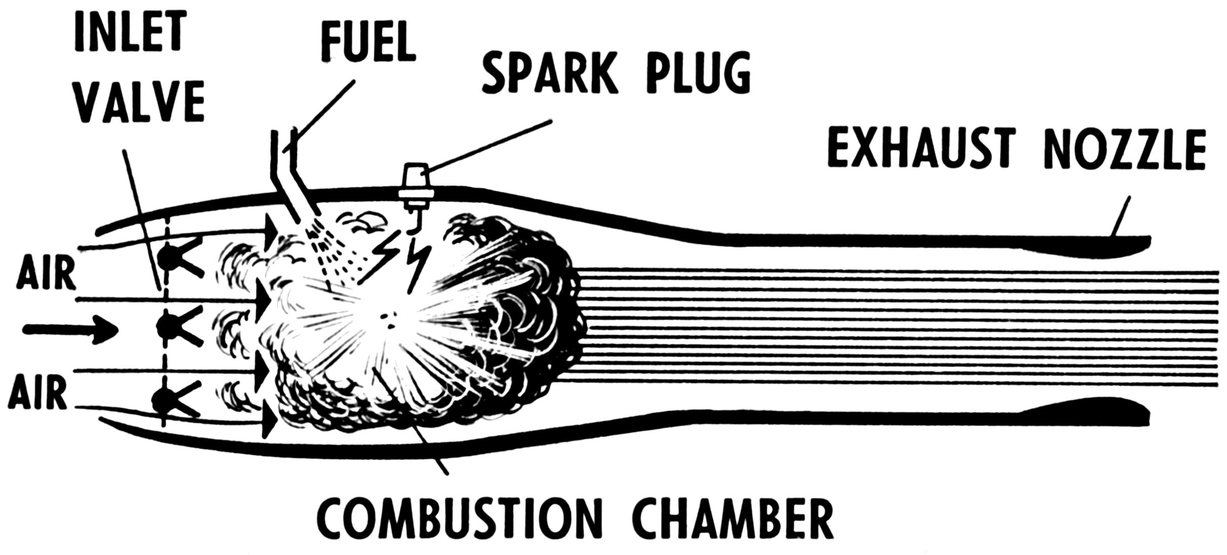 Line art drawing of pulse jet.